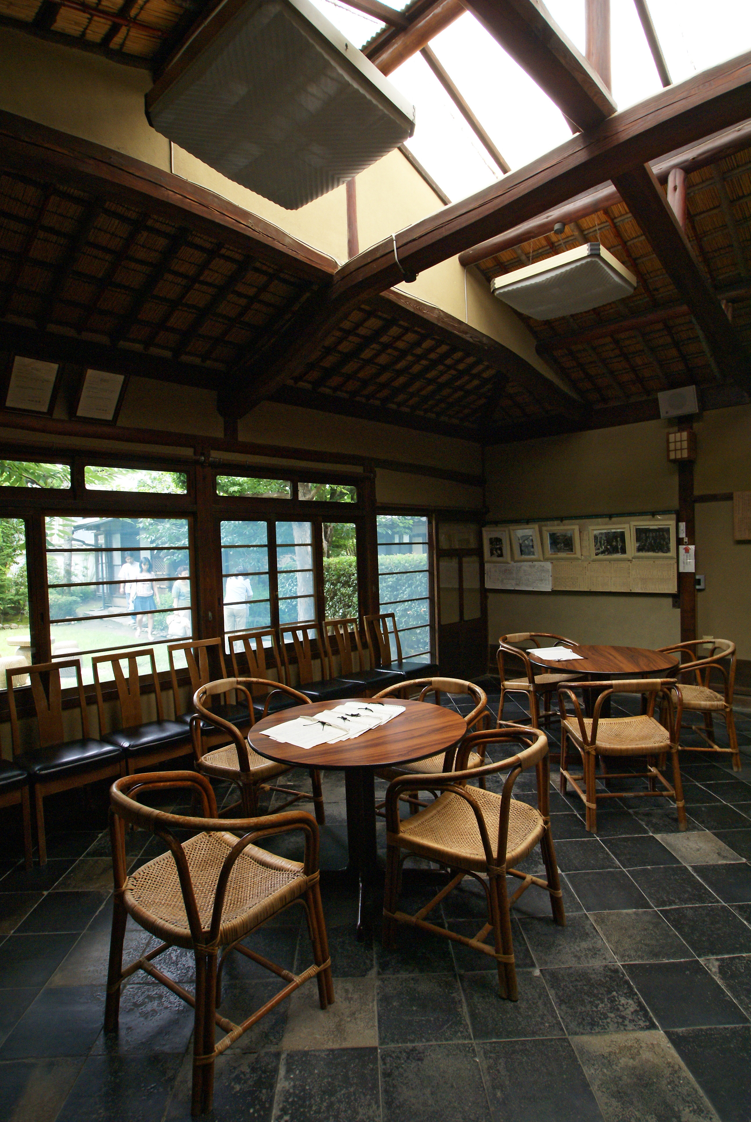 Naoya Shiga Old House in Takabatake, Nara, Nara prefecture, Japan